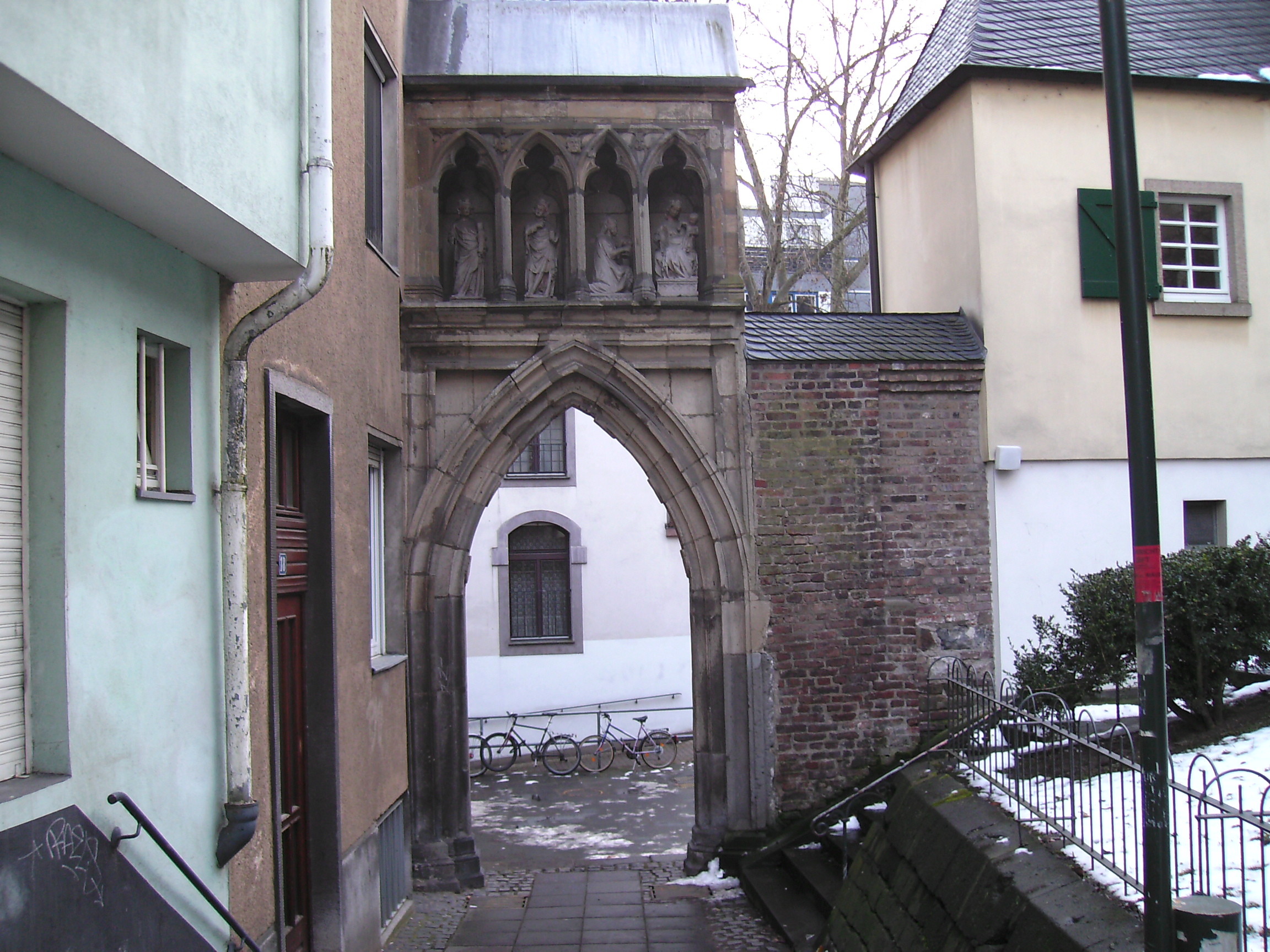 Little gate in Cologne, Germany